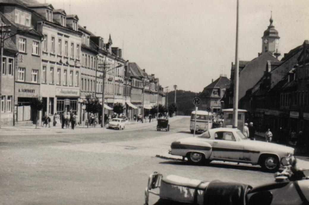 Market place in Nossen, ~1965